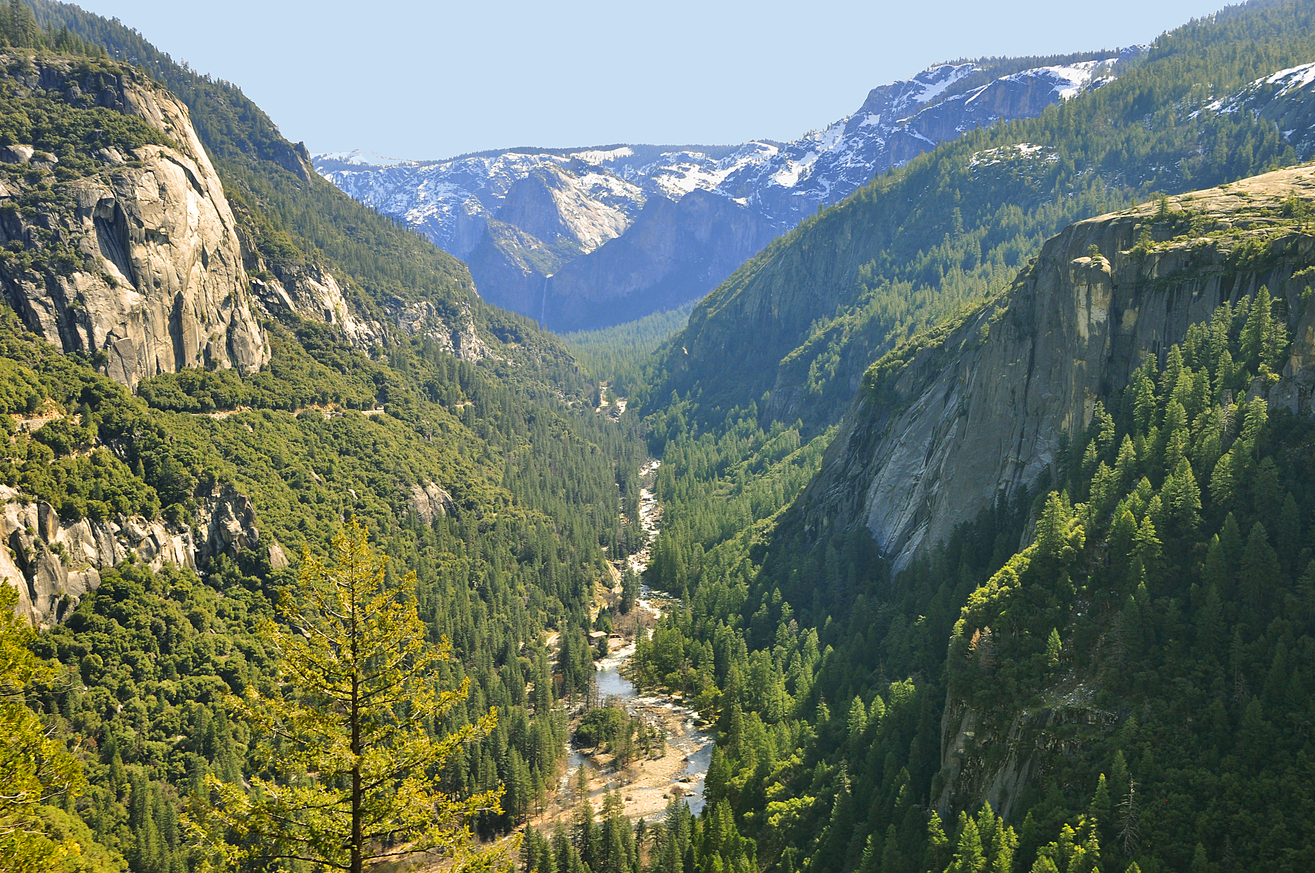 yosemite valley valley view 2010 california